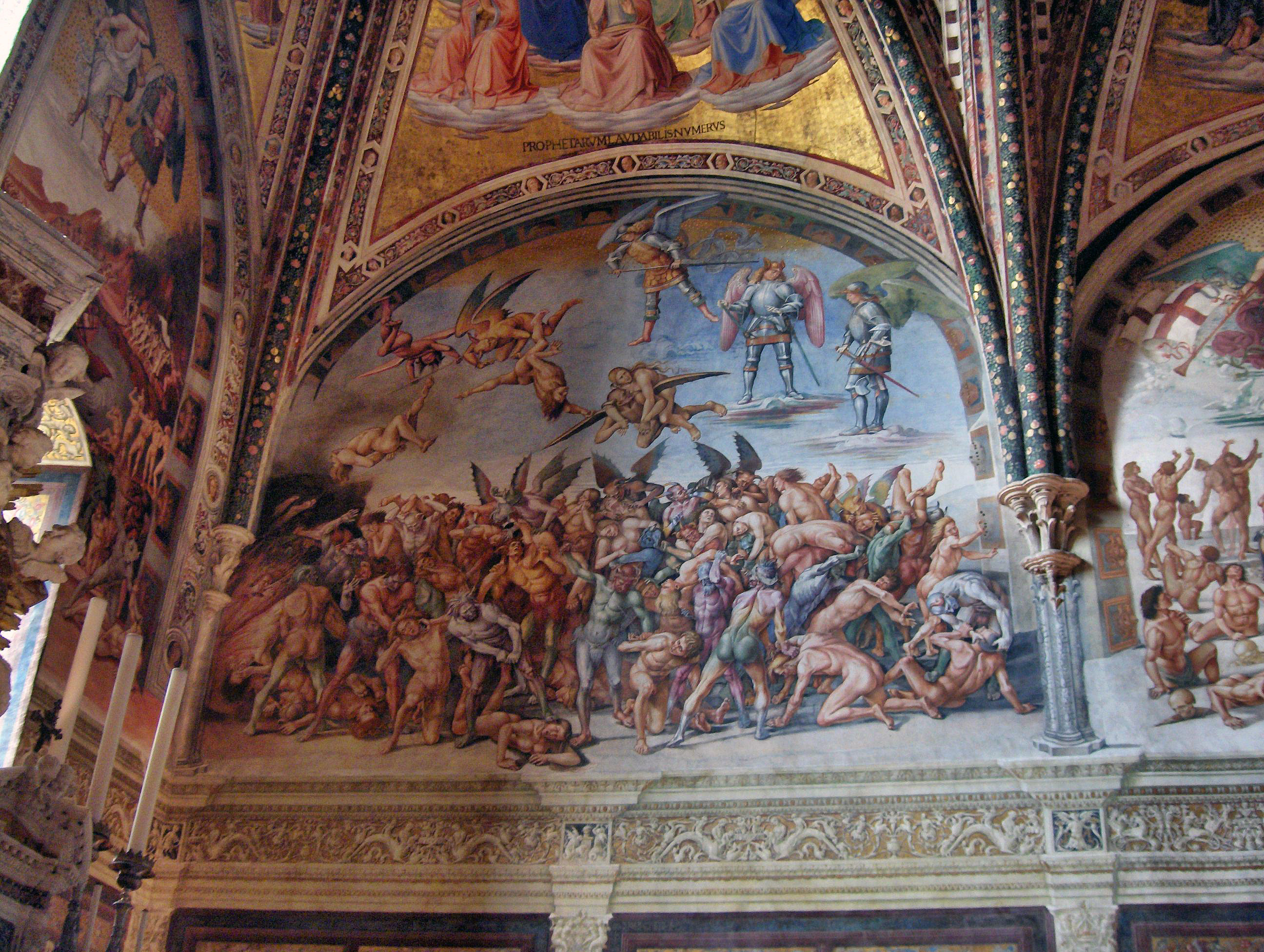 "The Damned are taken to Hell and received by Demons"; San Brizio Chapel, Cathedral of Orvieto, Italy